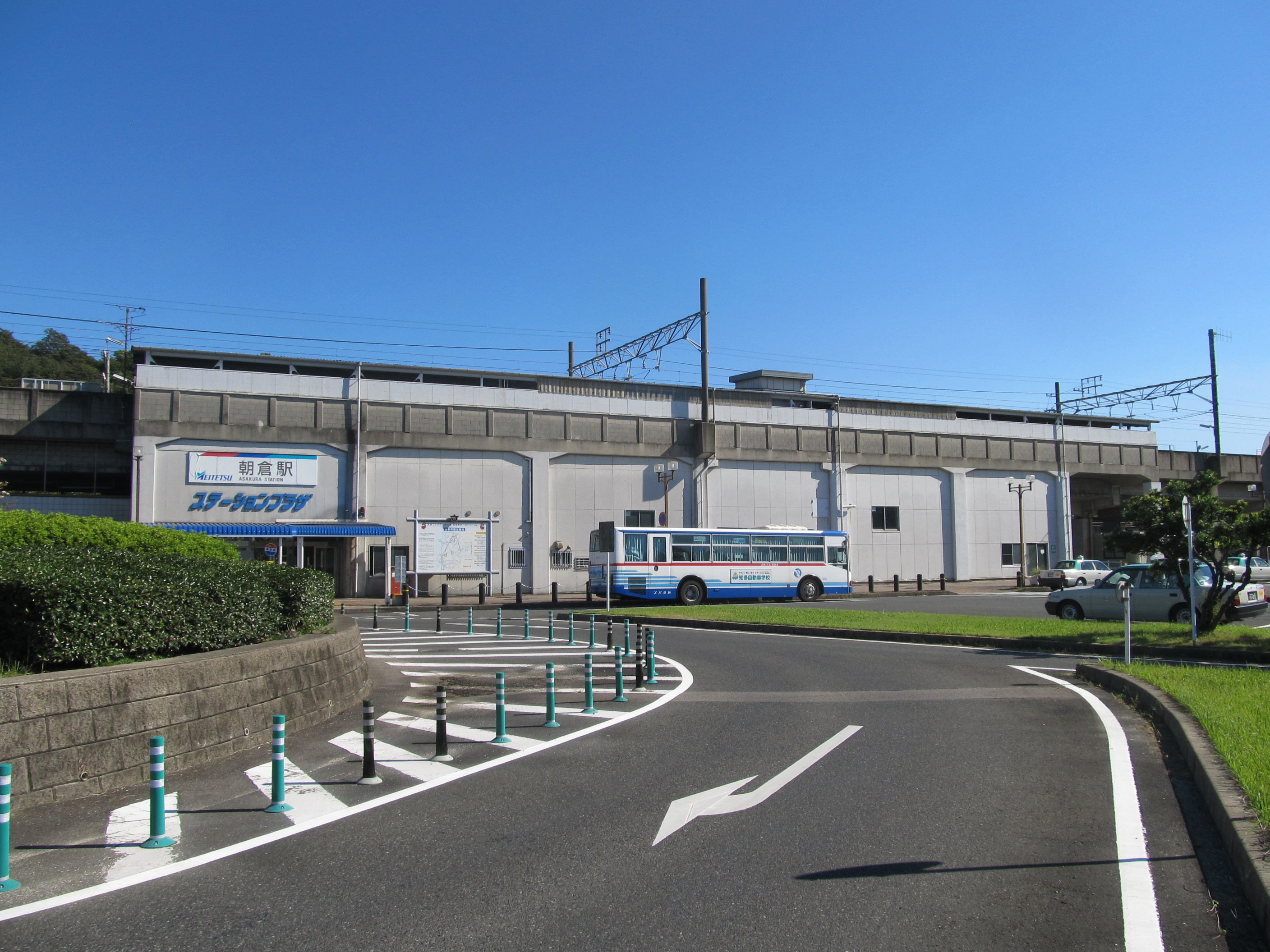 Nagoya Railroad Tokoname Line Asakura Station